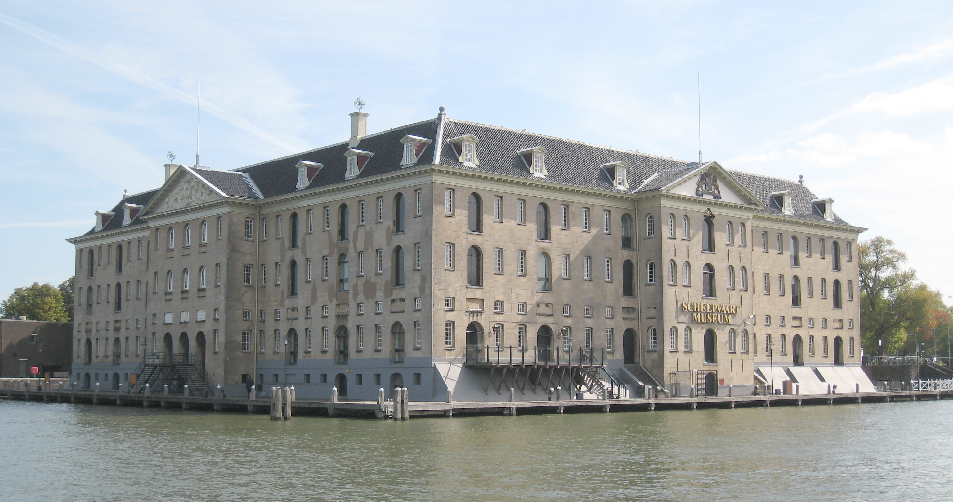 The Nederlands Scheepvaartmuseum (Netherlands Maritime Museum) is a museum in Amsterdam, The Netherlands.